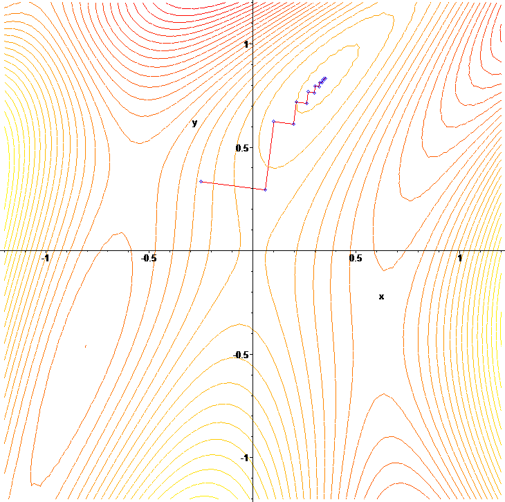 The 'gradient ascent' method applied to a 2D function. This image shows the contour-line point of view. See also: image:gradient ascent (surface).png.